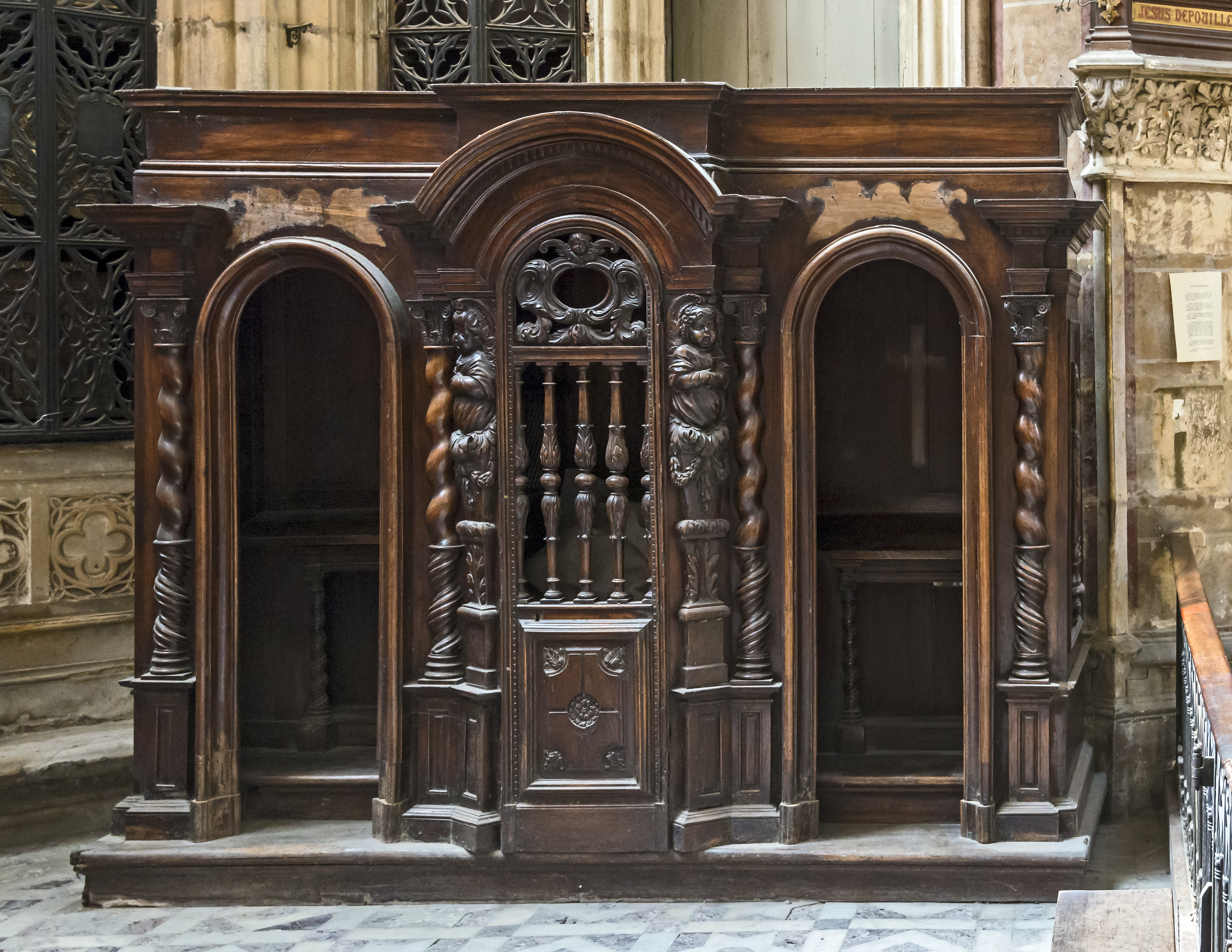 St Stephen's Cathedral of Toulouse - Chapel of relics - the confessional, oak seventeenth century (h = 215; l = 280 cmm).